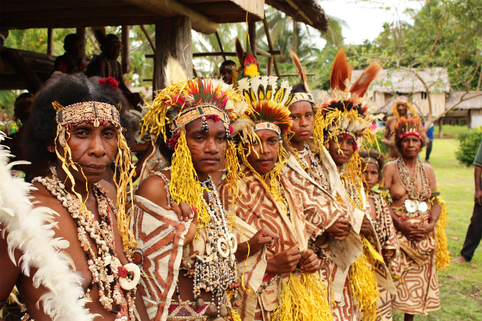 Orokaiva